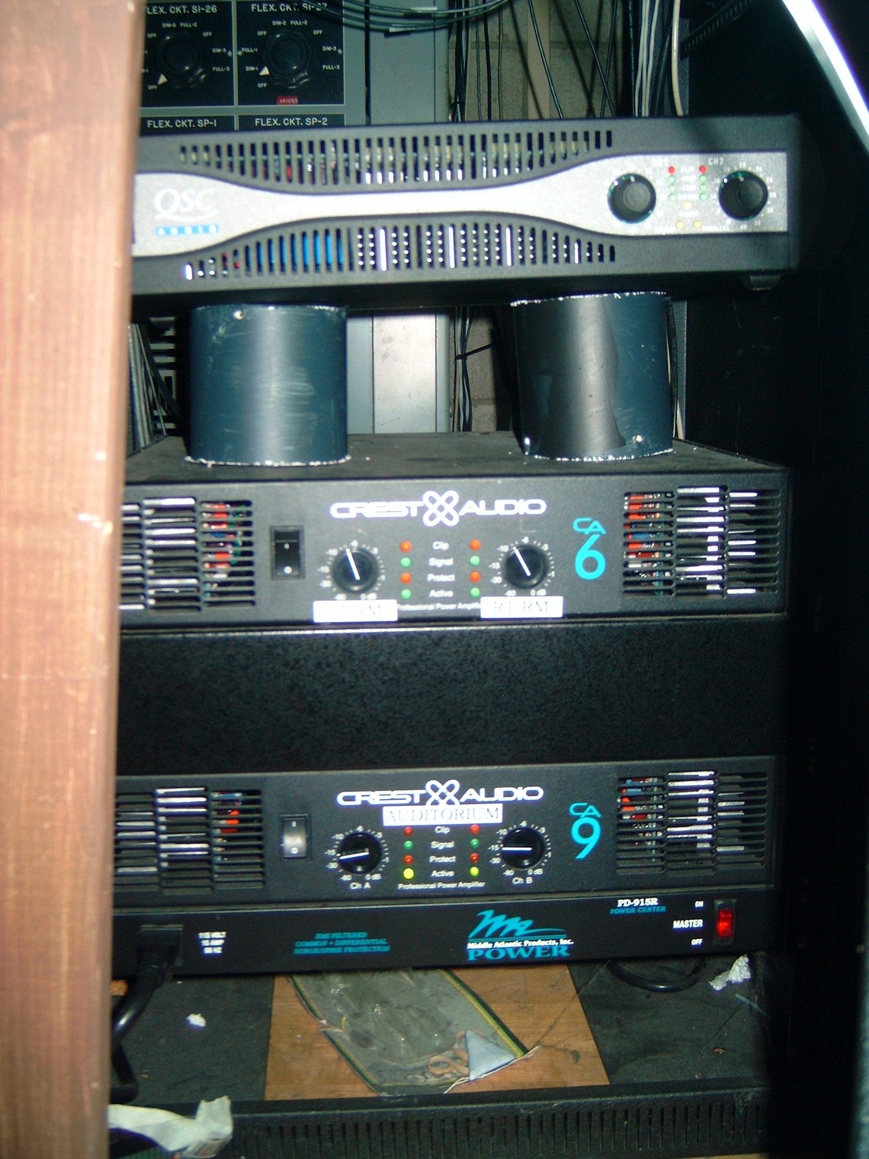 A picture, taken by me in November 2006, of three power amplifiers, two Crest and one QSC.